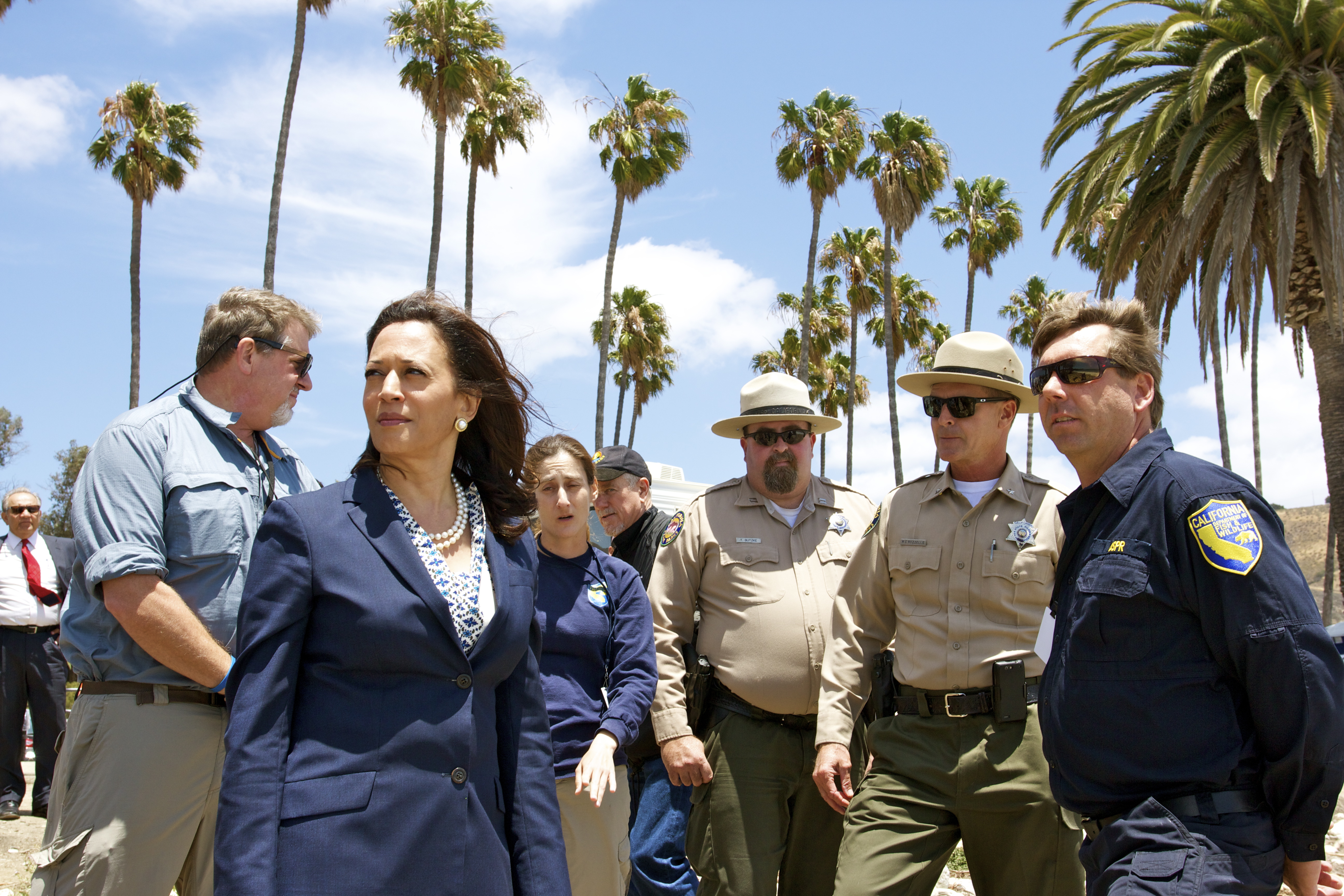 Attorney General Kamala D. Harris tours the clean up efforts at the Refugio State Beach and surrounding area affected by May 19th's oil spill.